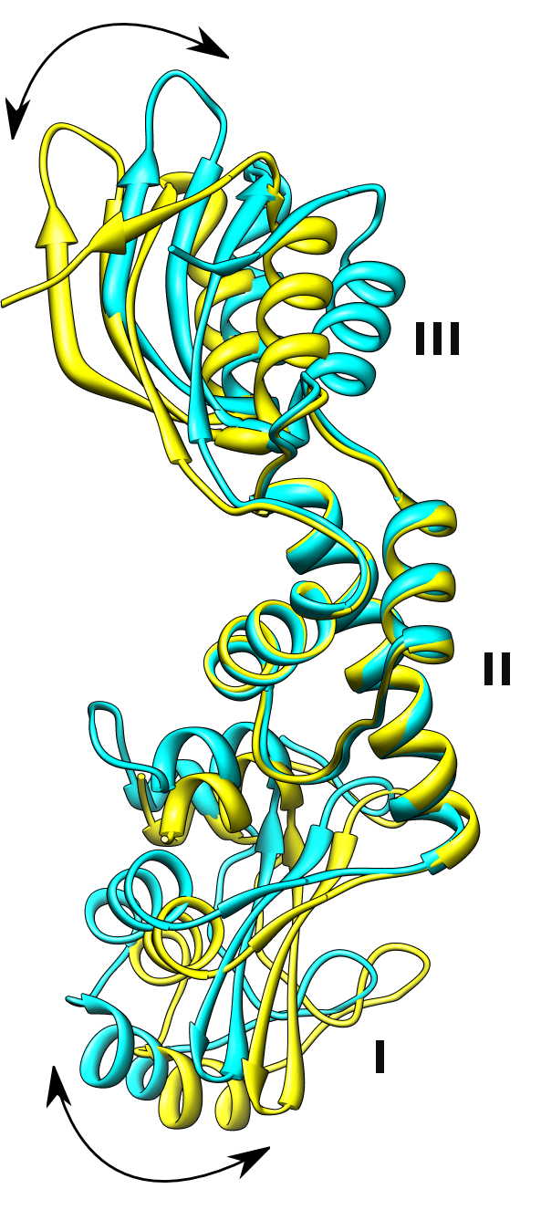 Ribbon model of SBDS protein.